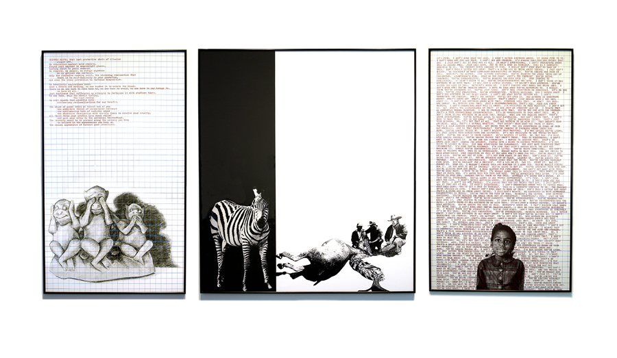 Decide Who You Are #1: Skinned Alive, photo-text collage, 3 panels